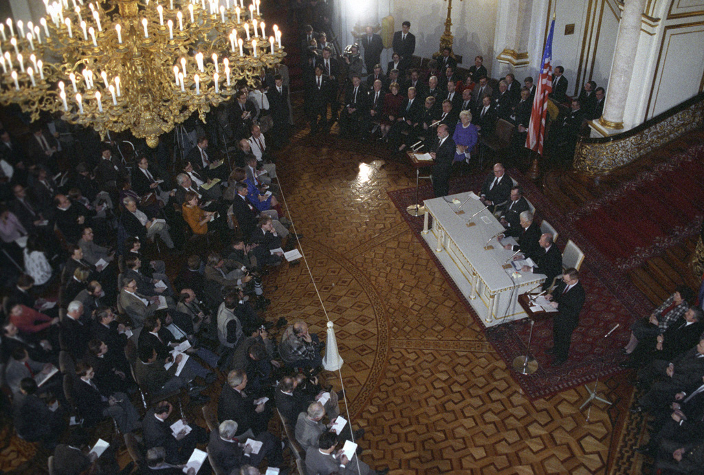 “Signing ceremony of Russian-US Treaty on Further Reduction of Strategic Offensive Arms”. Russian-American summit. The Kremlin. Russian President Boris Yeltsin and U.S. President George Bush during the signing of the Russian-US Treaty on Further Reduction of Strategic Offensive Arms (START-2).